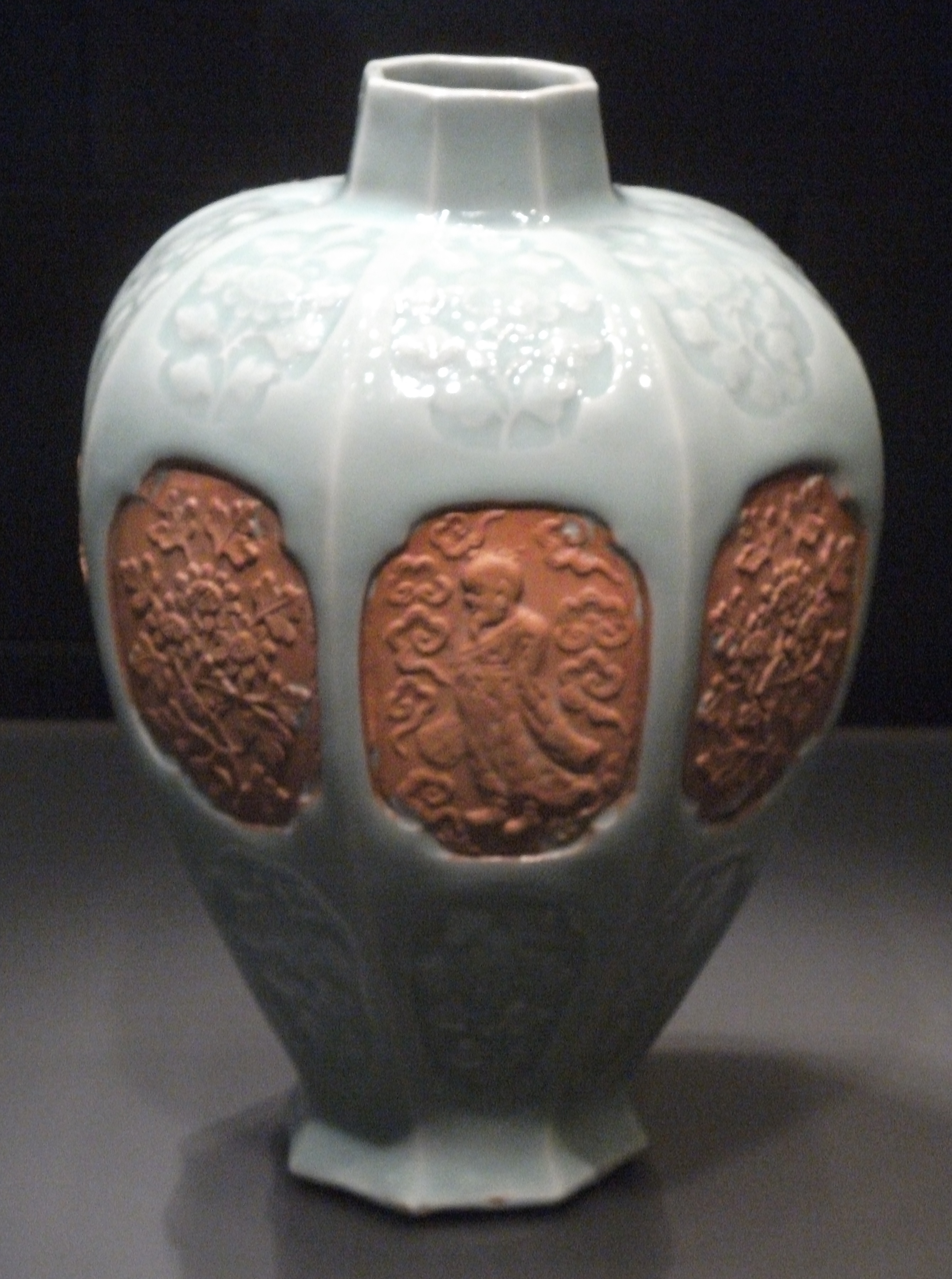 Percival David Collection, Room 95, British Museum